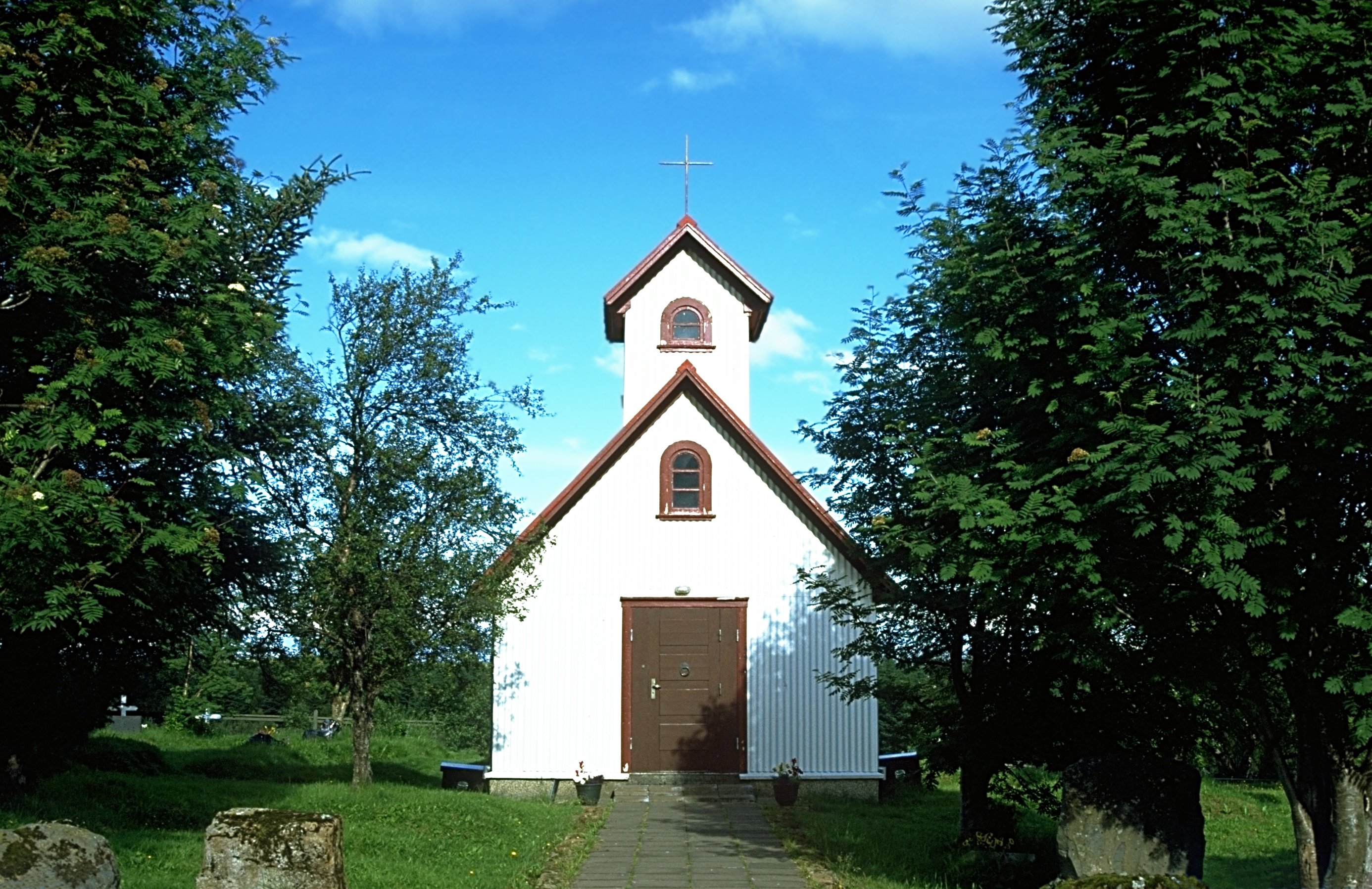 Church in Haukadalur near Geysir area, Iceland Photo was taken using the following technique: Film: Fuji Velvia Lens: 4/35-70 Filter: none Body: Minolta Dynax 7 Support: Manfrotto 190B Image with Information in English Bild mit Informationen auf Deutsch